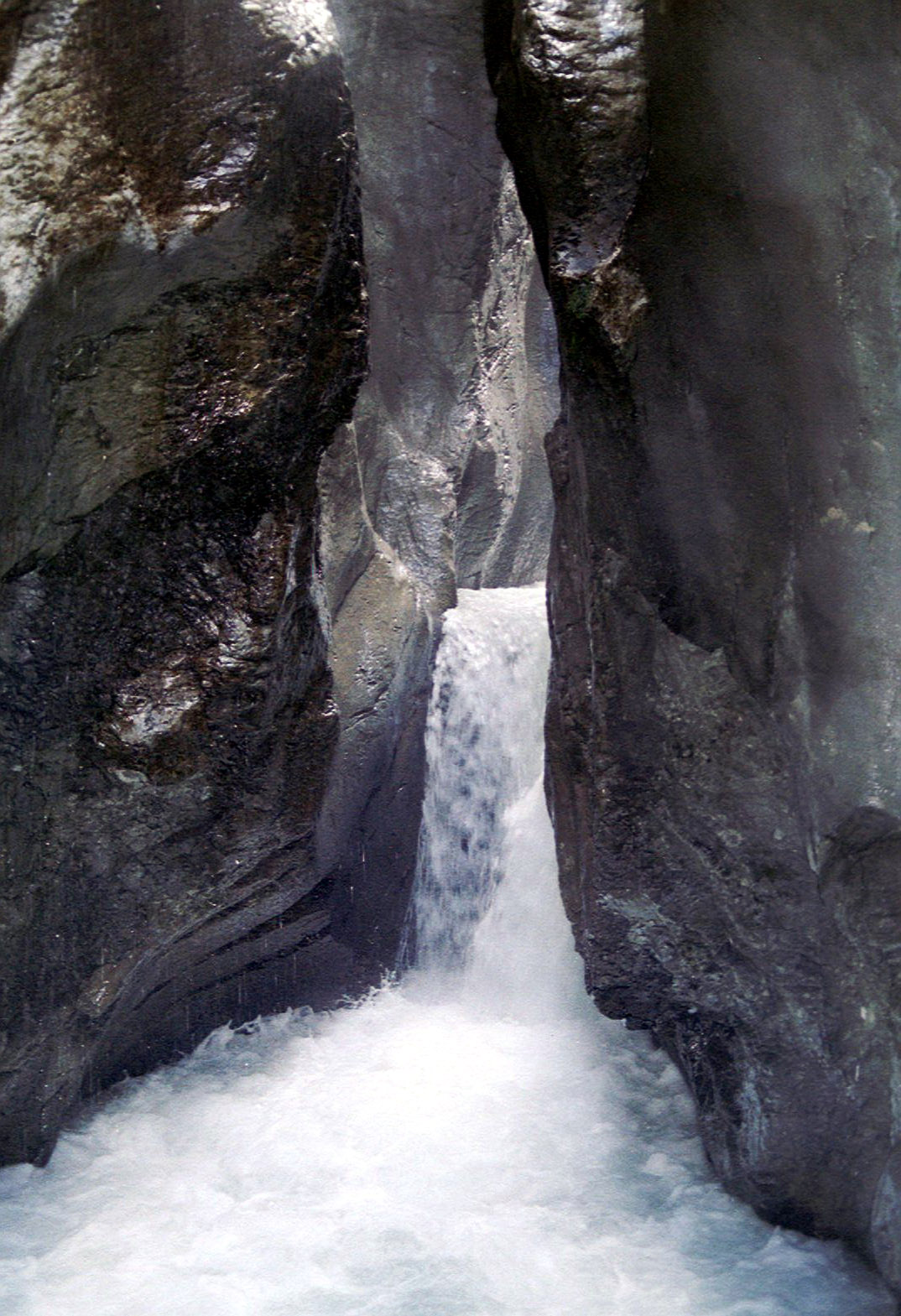 Rosenlauischlucht, Switzerland